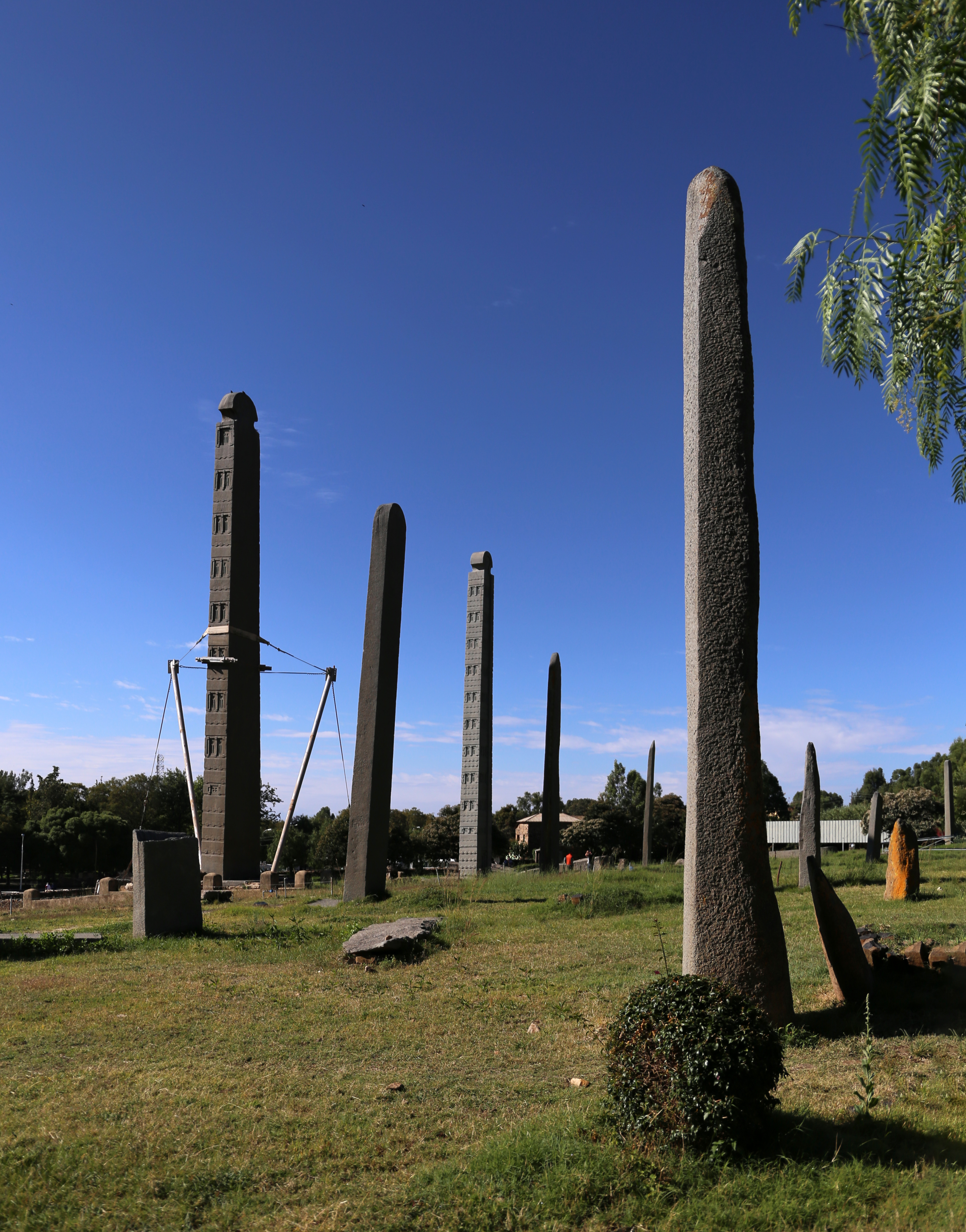 Northern Stelae Park